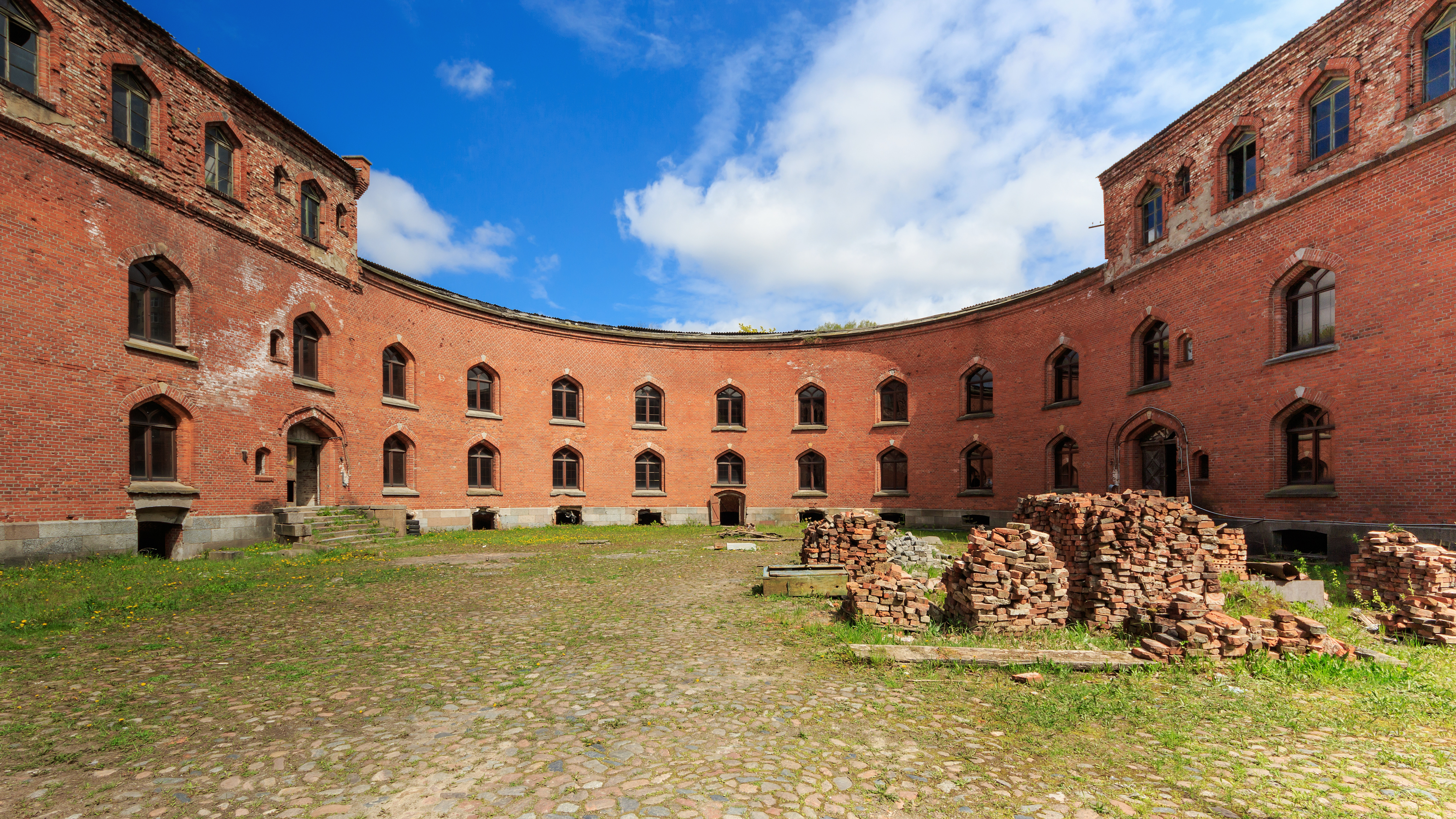 Grolman Bastion in Kaliningrad formerly Königsberg, Kaliningrad Oblast (Russia).